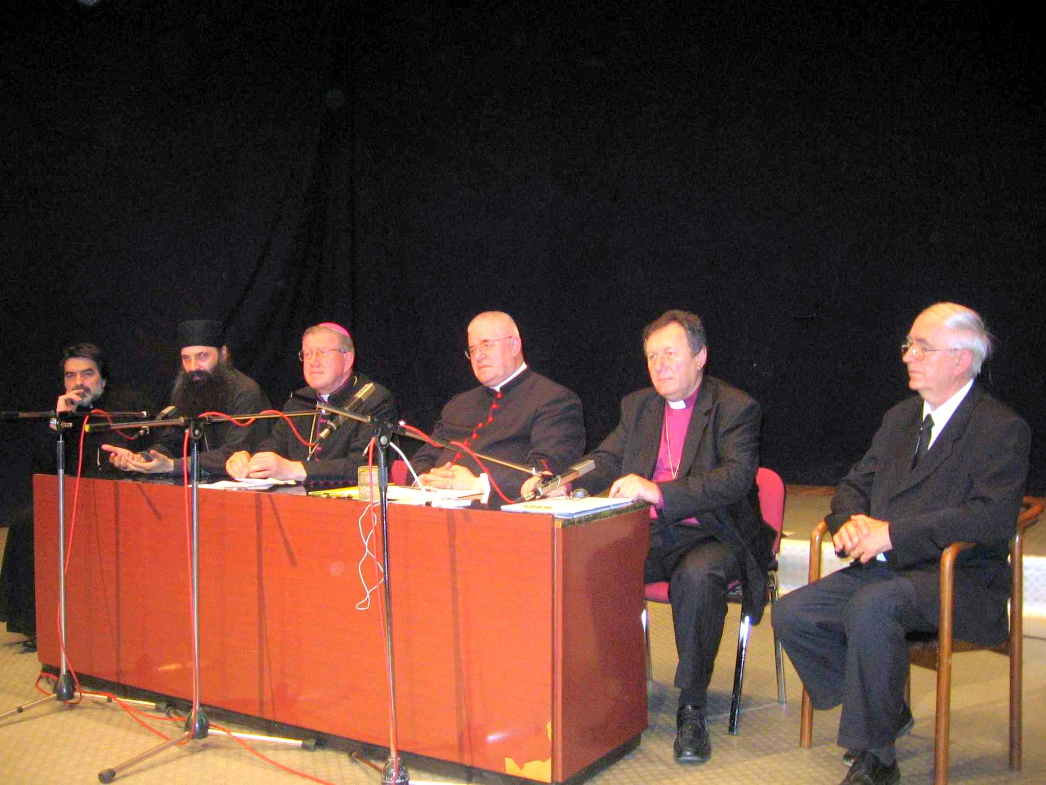 Ecumenical meeting in Novi Sad on 12. IX. 2006 between Catholics, Orthodoxes, Reforms and Evagelics in RTV studio